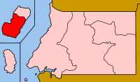 Map of Equatorial Guinea showing Bioko Sur province.